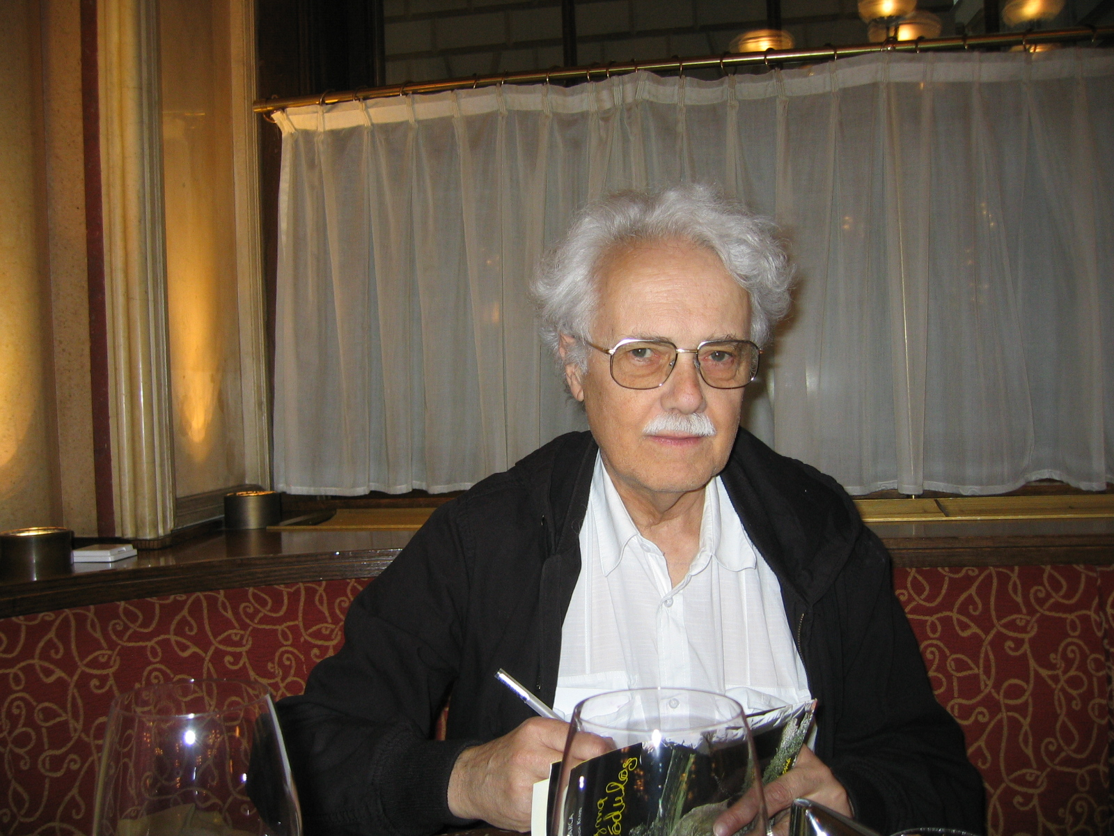 Chilean writer Eduardo Labarca signing one of his books at the Café Central in Vienna